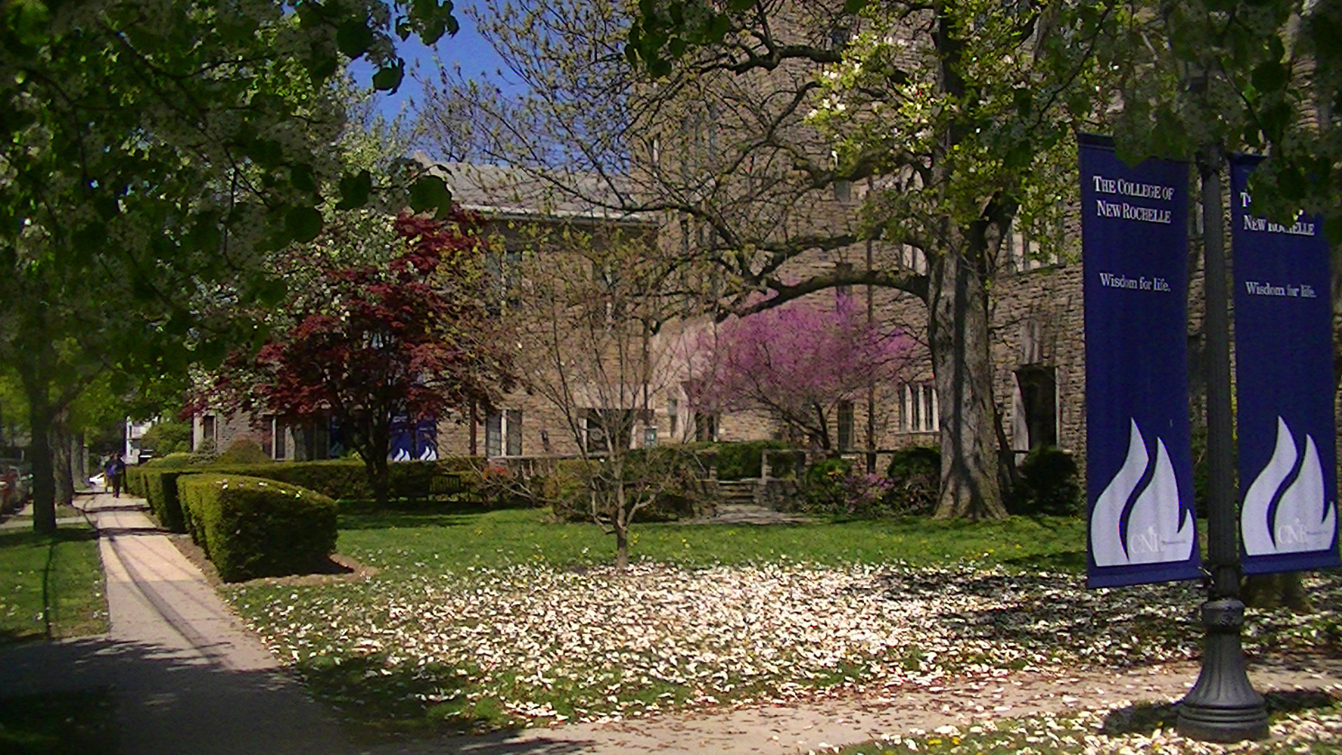 Main entrance of the Gill Memorial Library on the campus of The College of New Rochelle.